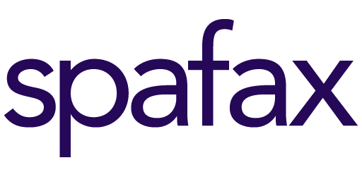 Spafax Logo